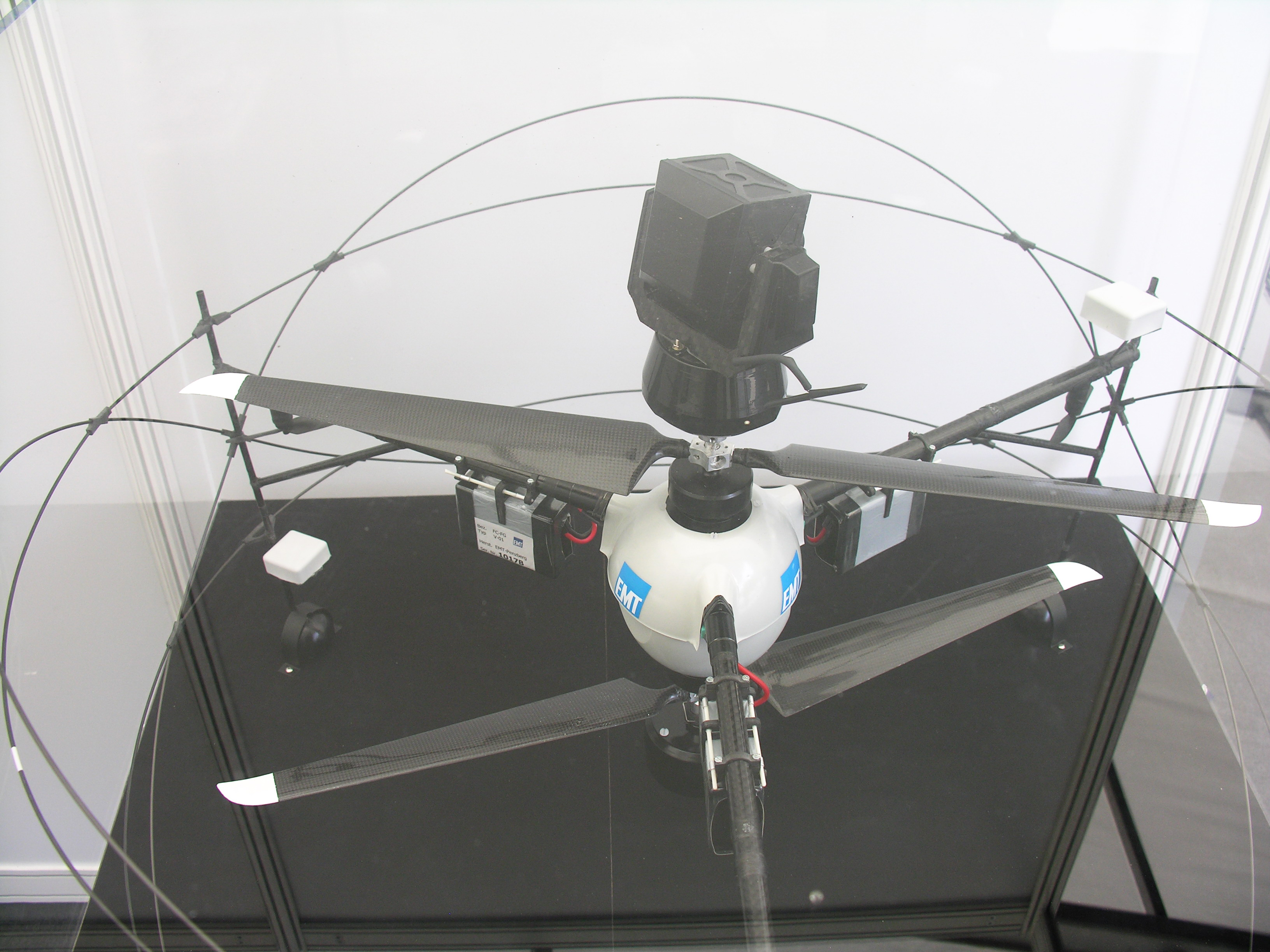 UAV EMT FANCOPTER on TechDemo'08